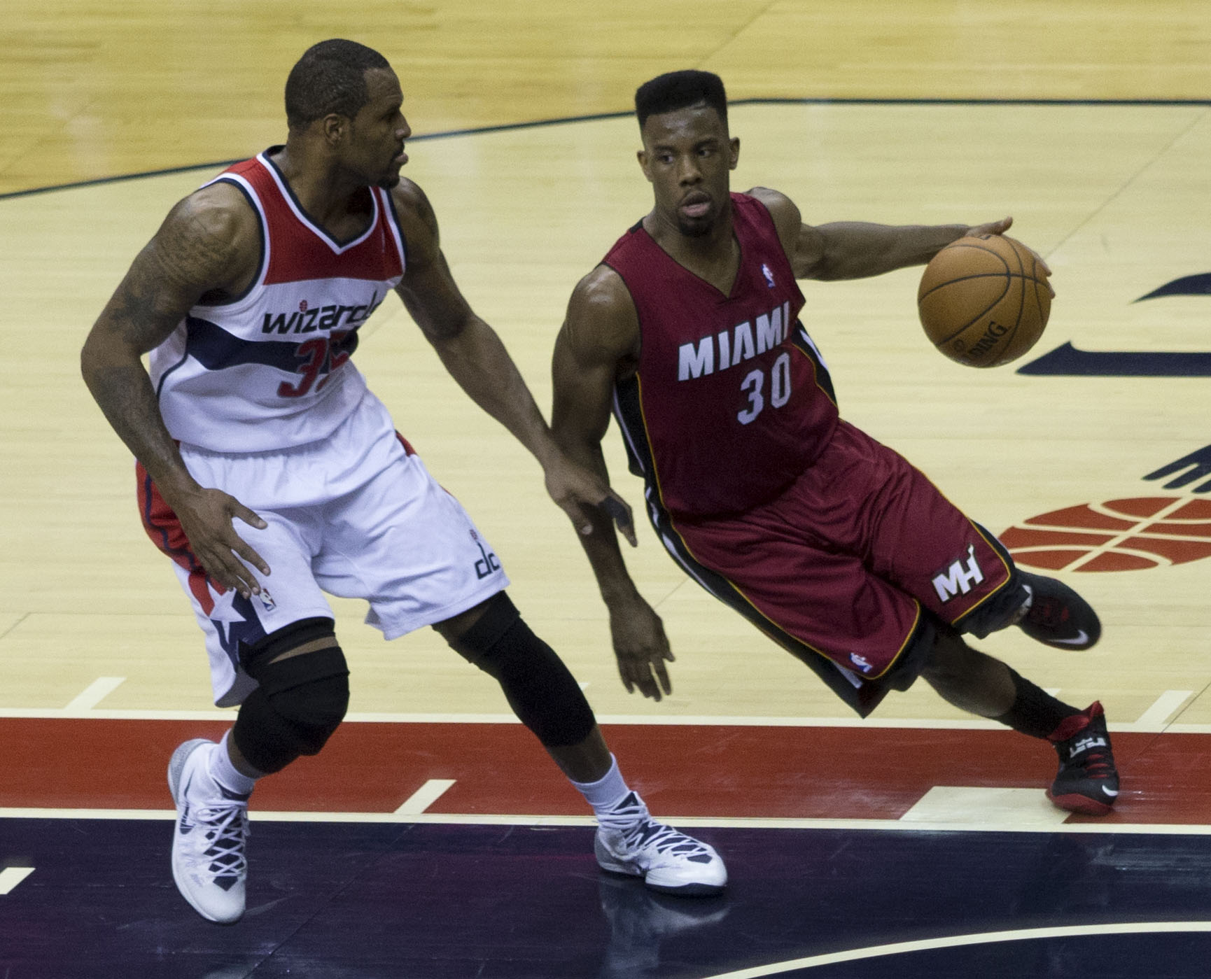 Heat at Wizards 1/15/14